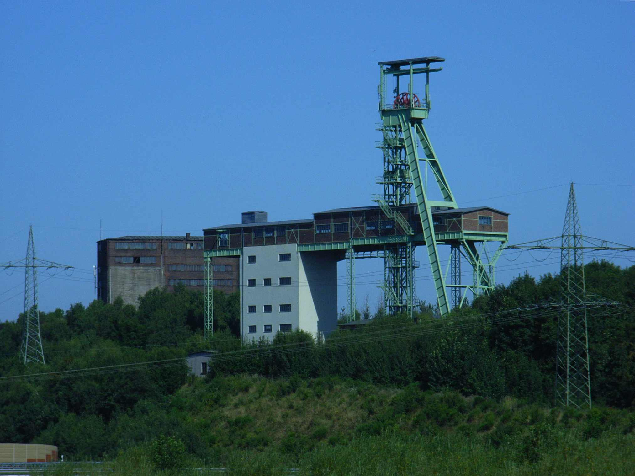 Georg mine, Willroth, Rhineland-Palatinate, Germany.